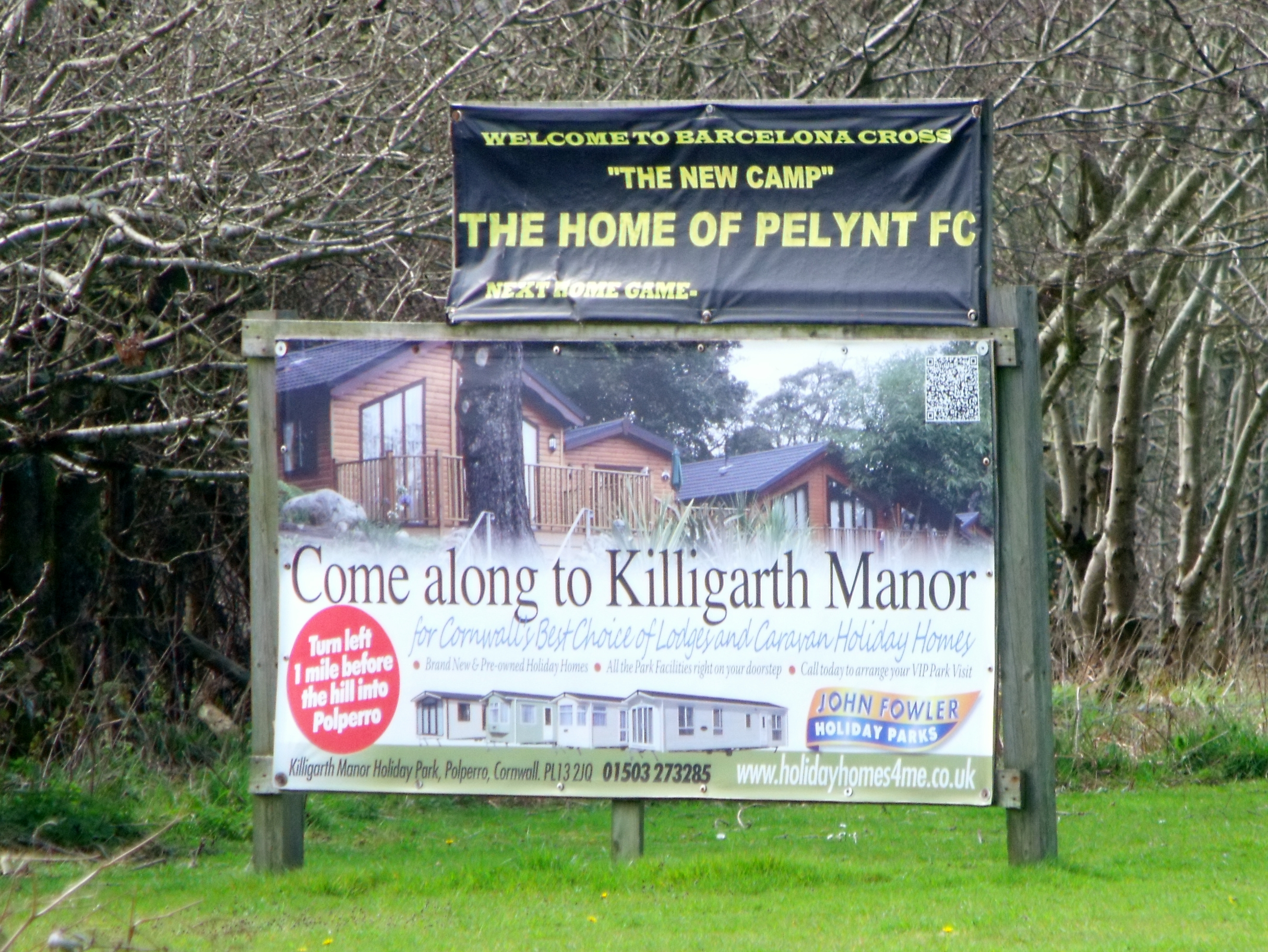 The team play in the Duchy League.